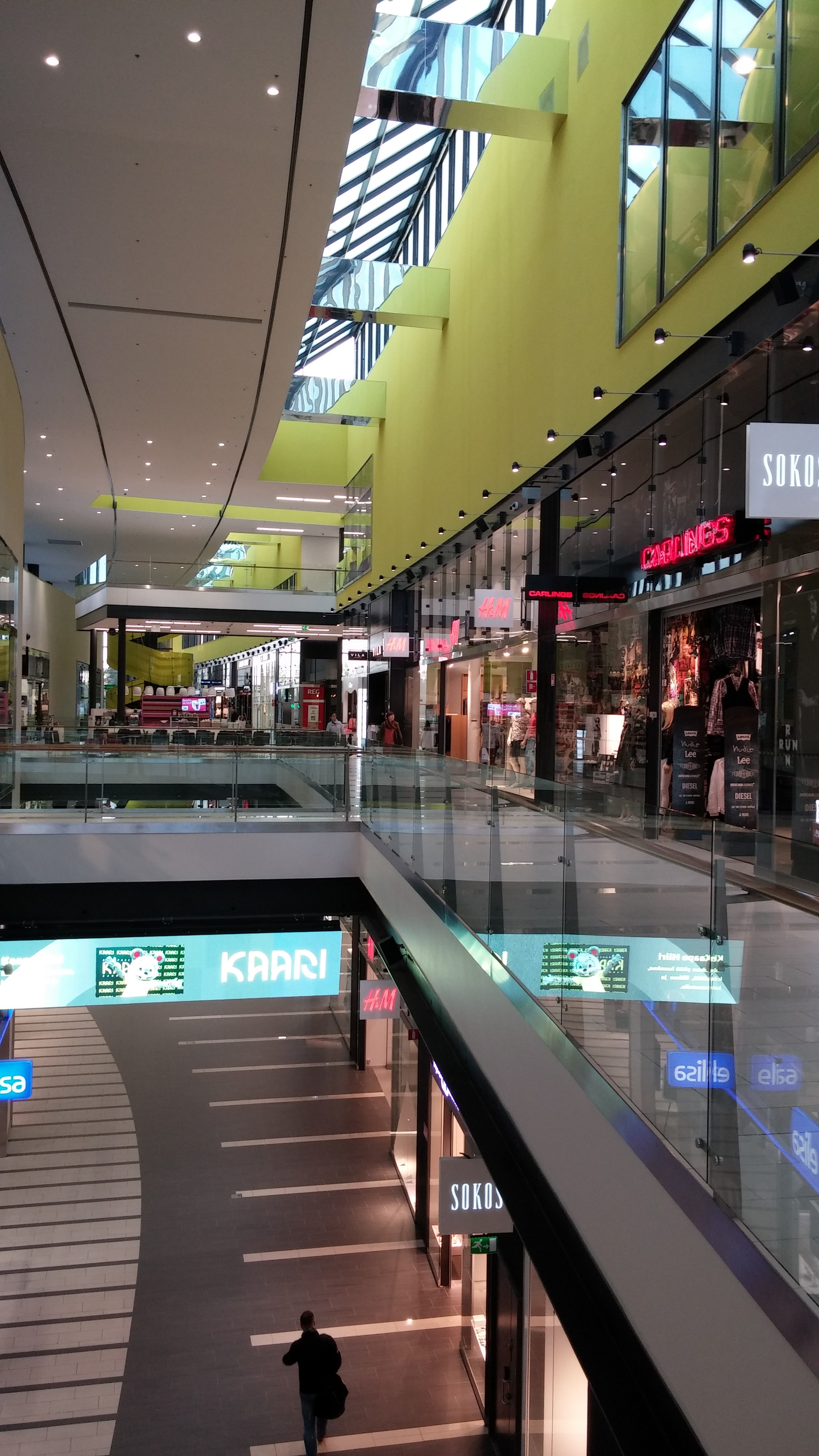 Kauppakeskus Kaari is a shopping mall in Helsinki, Finland.